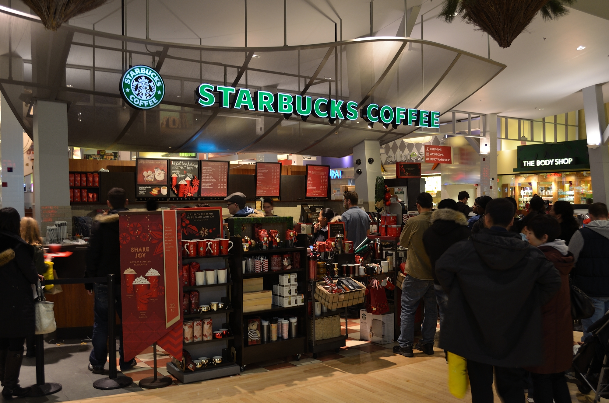 People lining up in front of Starbucks Coffee at Vaughan Mills